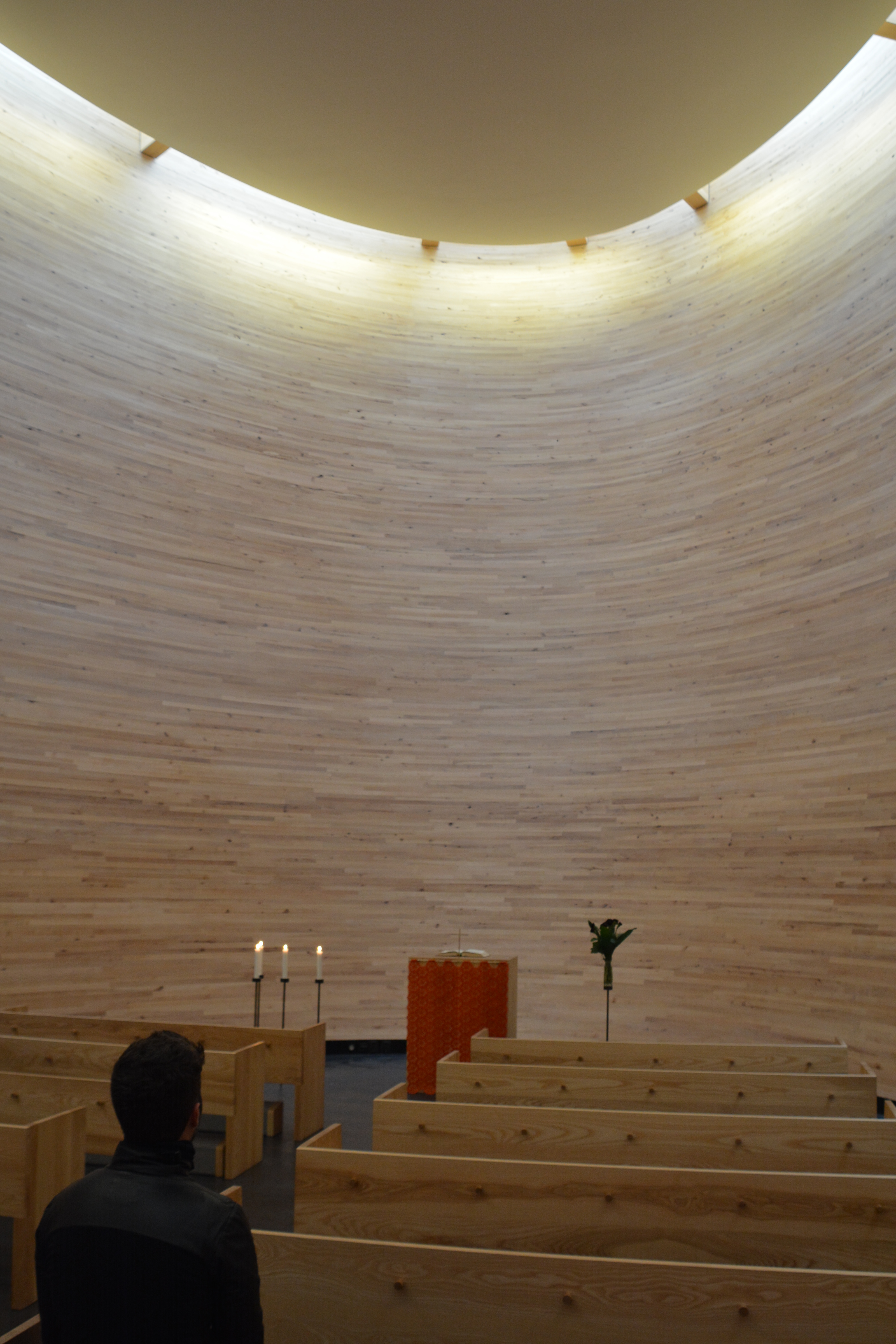 Interior, Kampens kapell